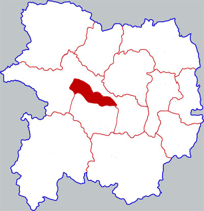 Location of Jintai district in Baoji city, China